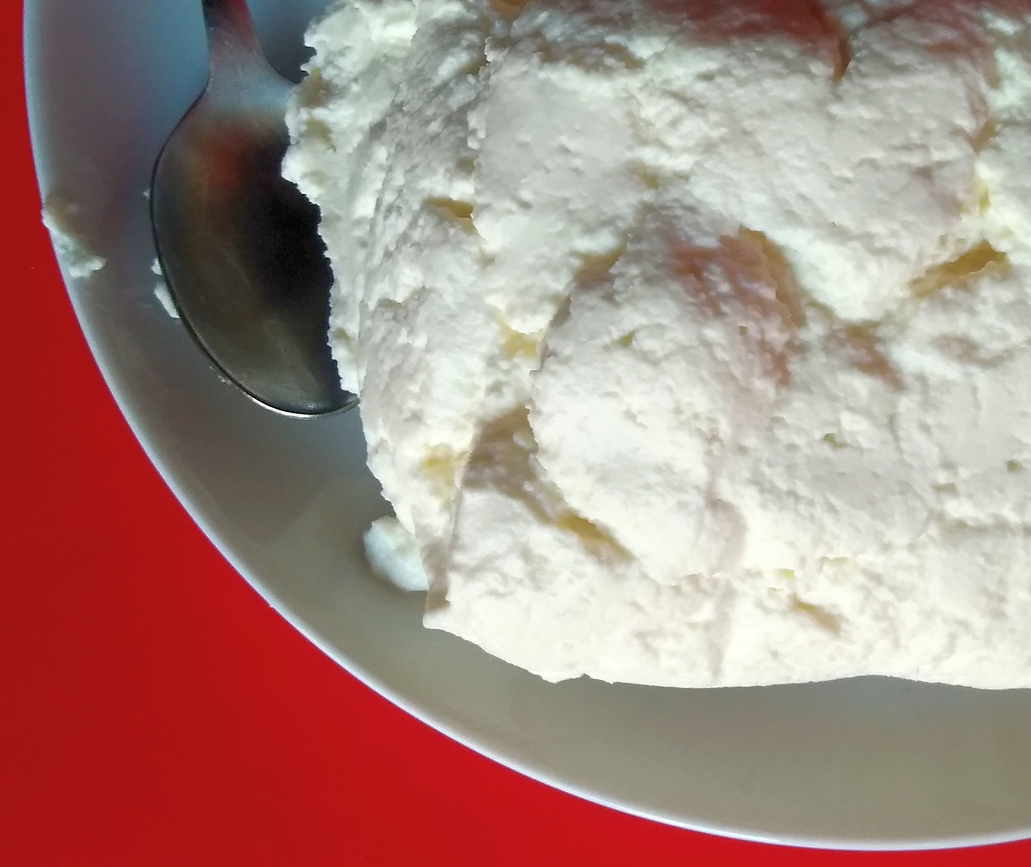 Seirass di latte (a traditional cheese of PIedmont)